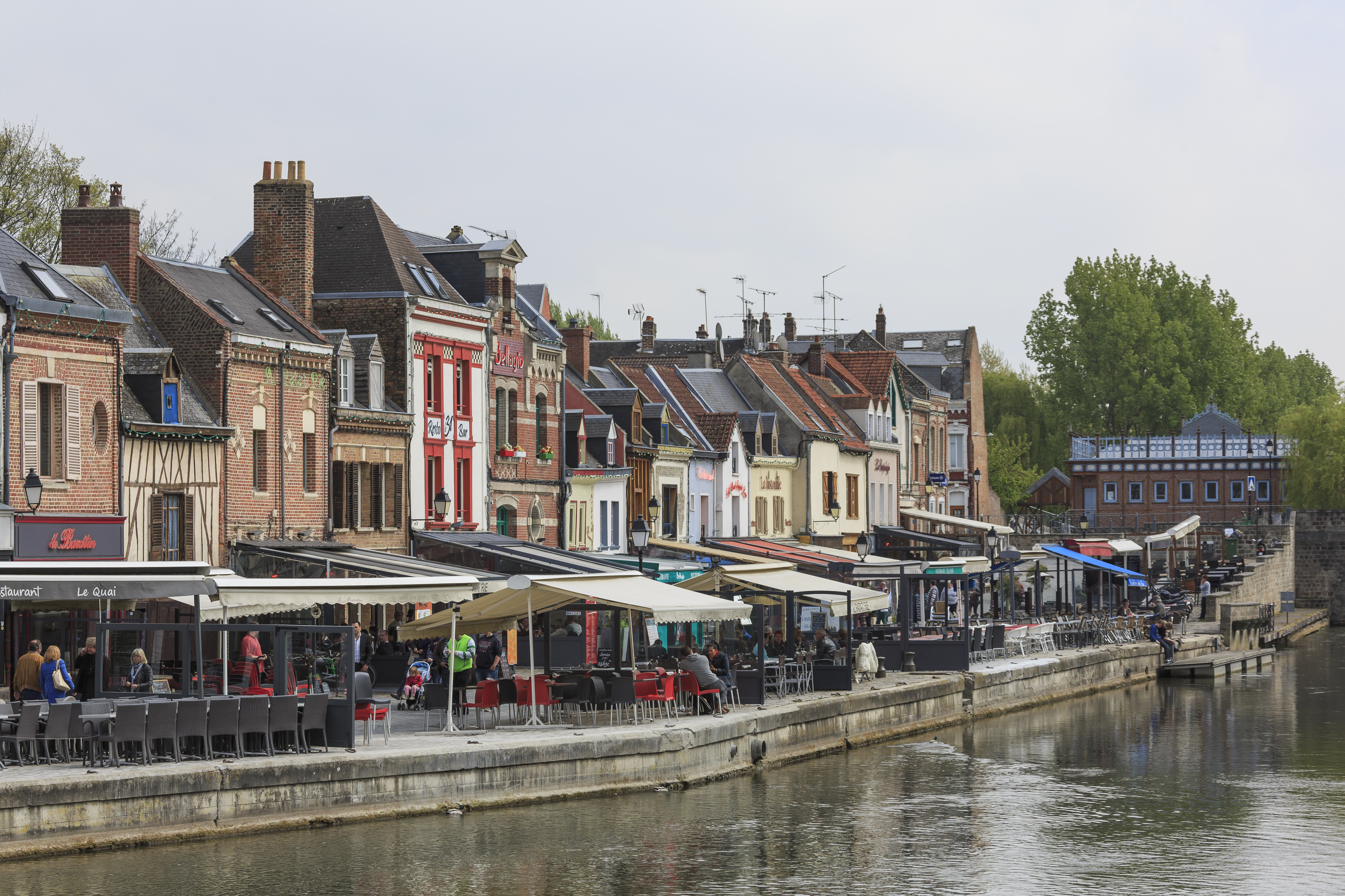 Amiens, France: Quai Belu